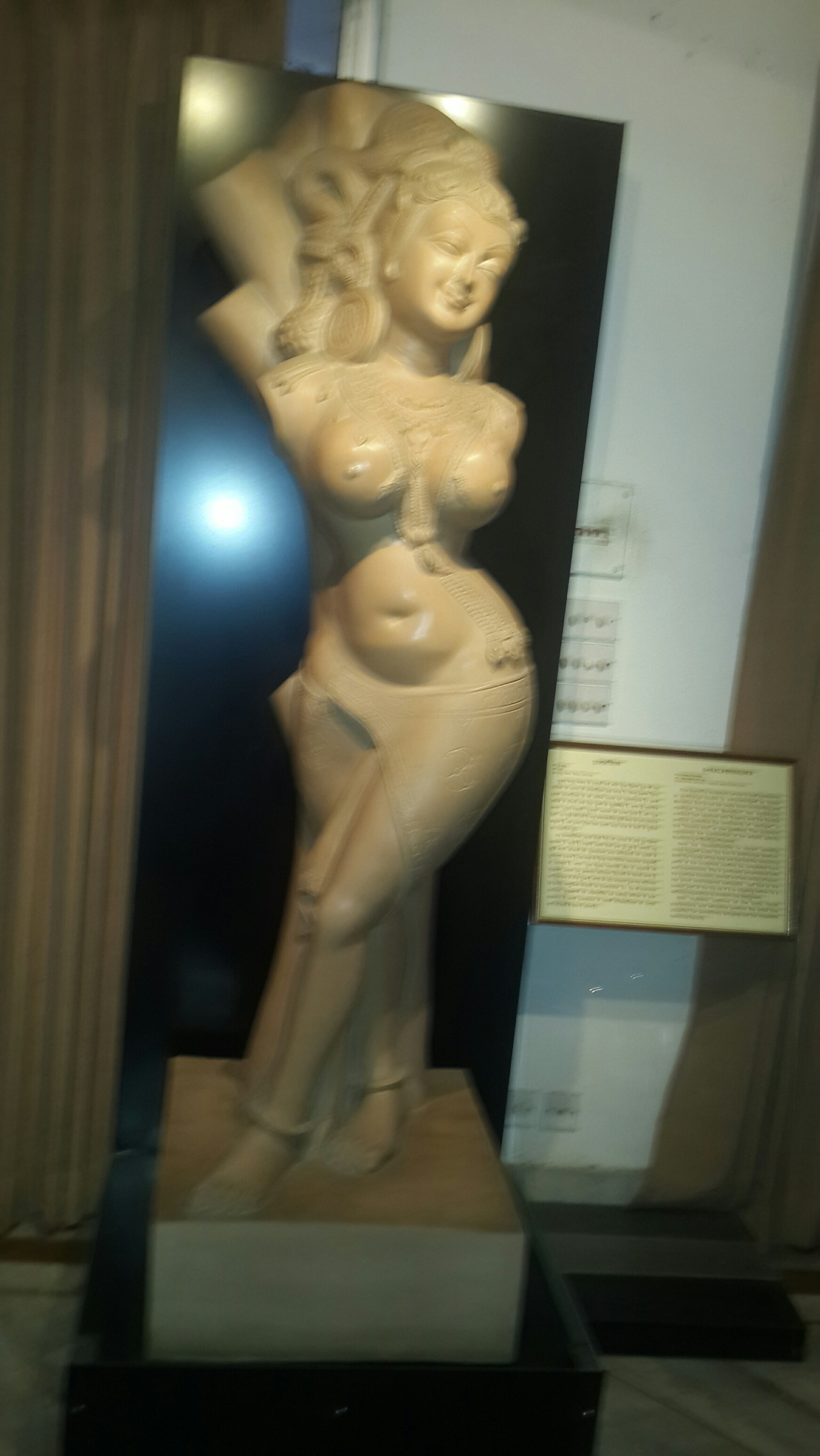 Replica of Shalabhanjika displayed at the Children Museum, Siri Fort, New Delhi